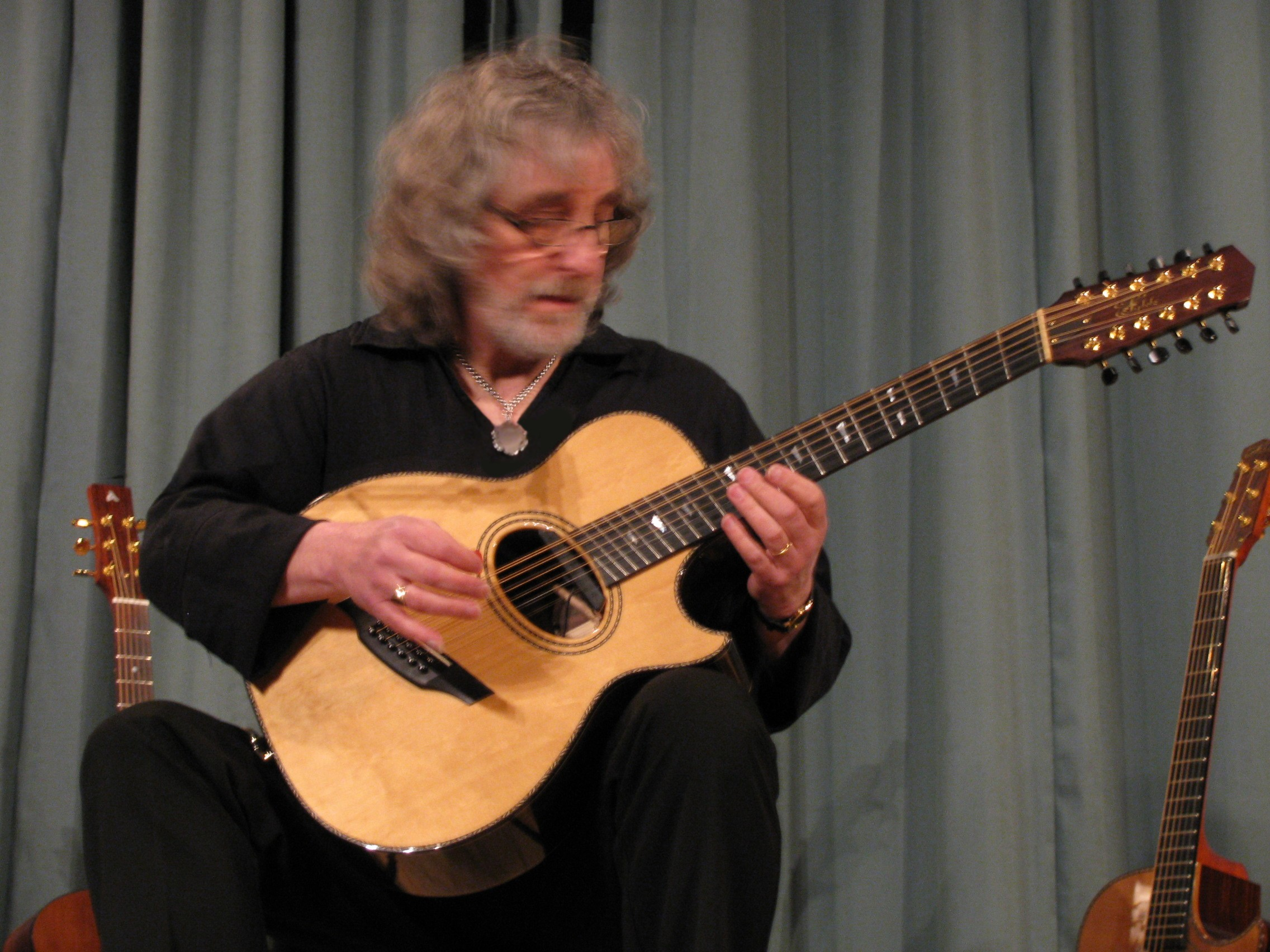 Gordon Giltrap in concert on a Fanned fret guitar or slanted frets guitar